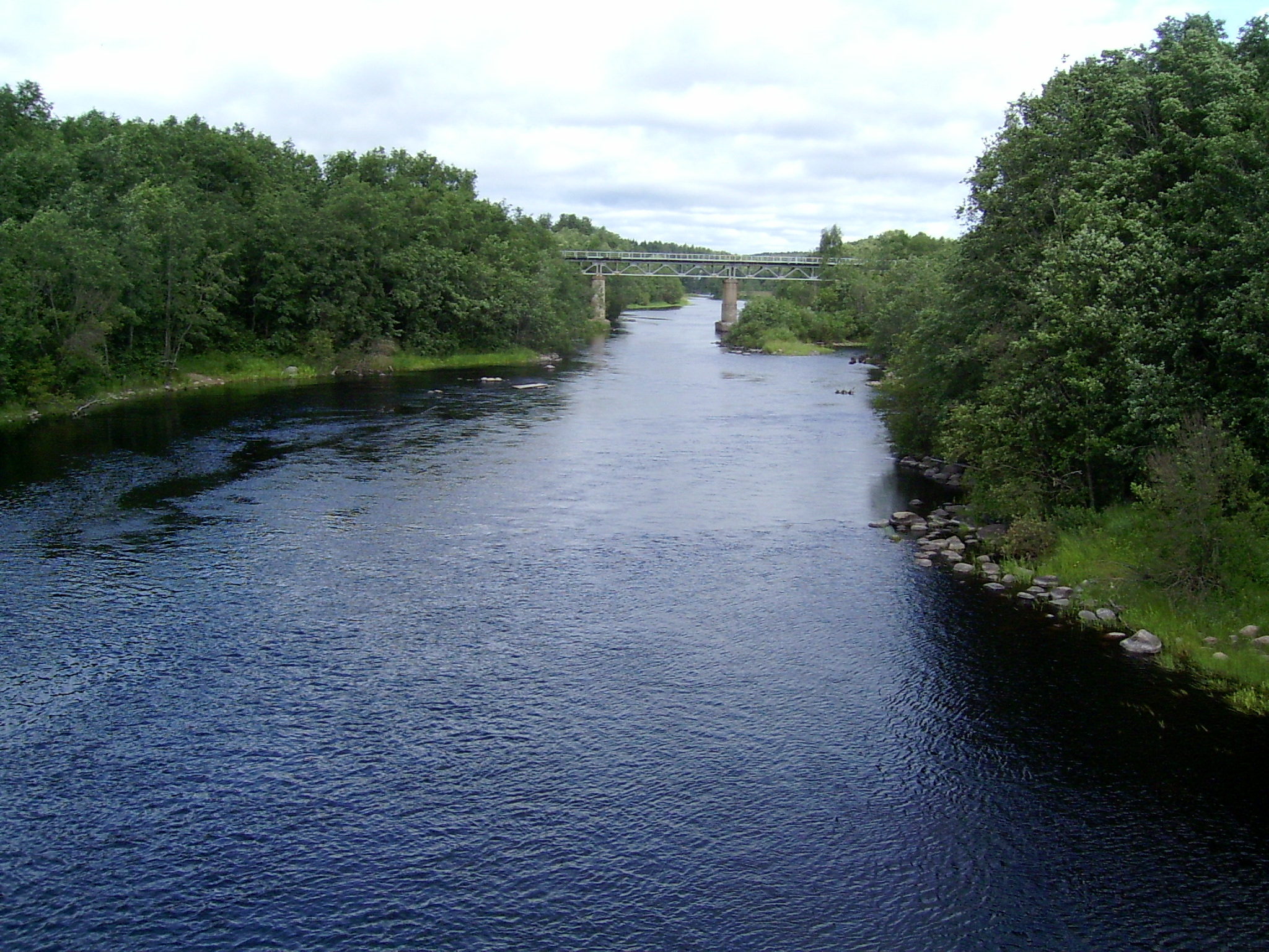 Tulemajoki river in Salmi.